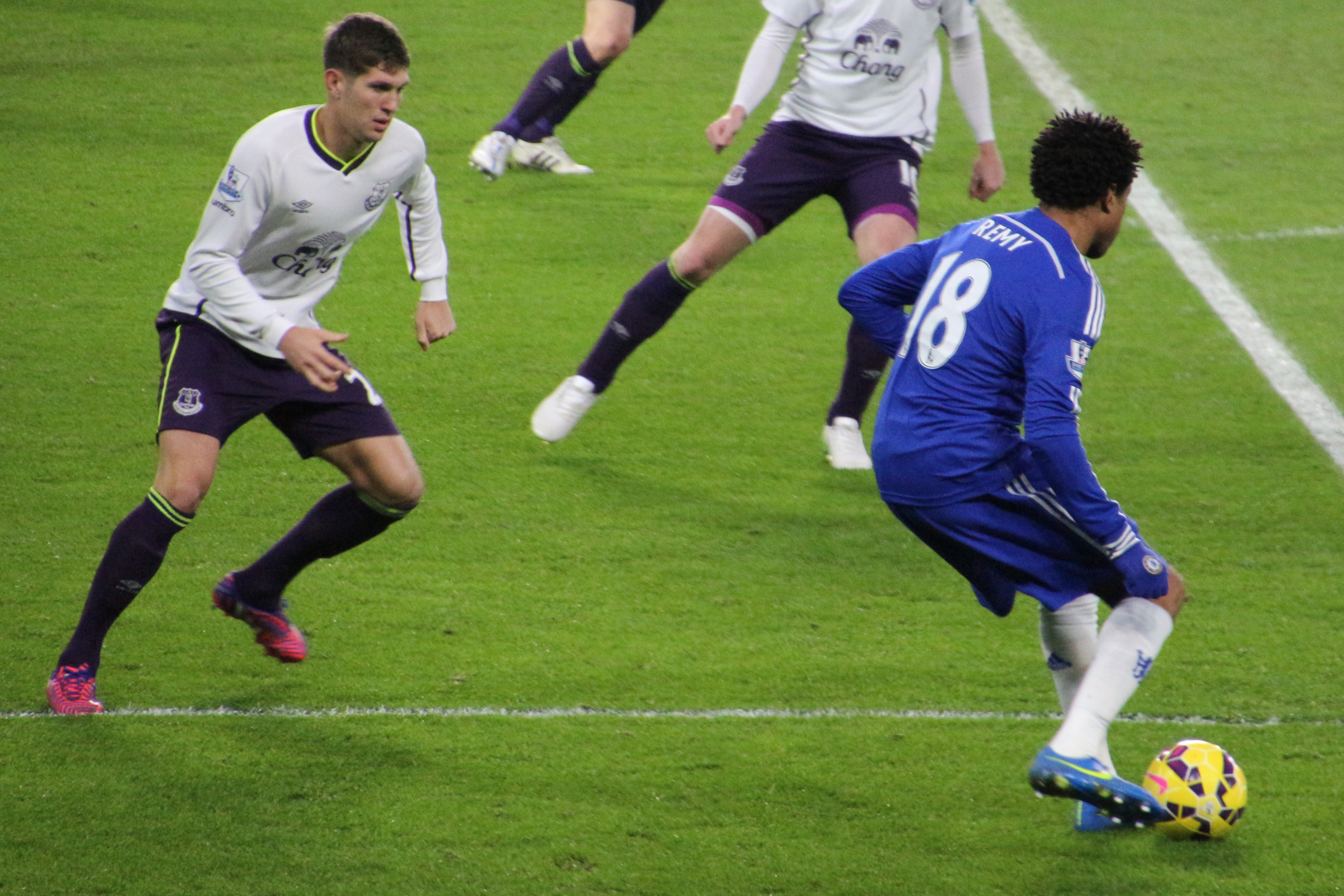 Chelsea 1 Everton 0